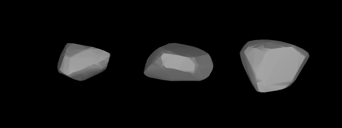 Three-dimensional model of 60 Echo created based on light-curve.